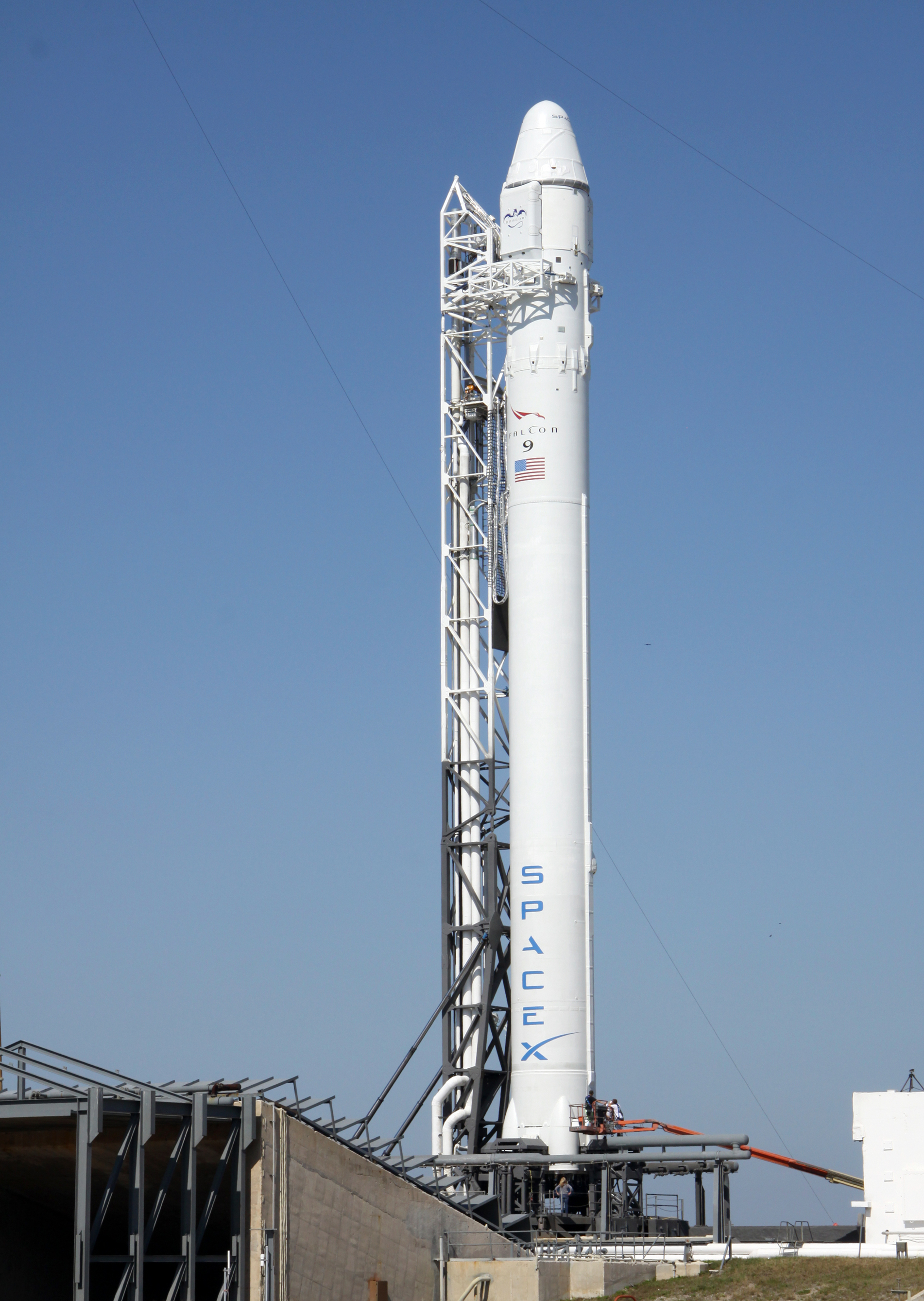 CAPE CANAVERAL, Fla. – A strongback provides connections to the SpaceX Falcon 9 rocket as final preparations for launch are completed at Space Launch Complex-40 on Cape Canaveral Air Force Station in Florida. Liftoff with the Dragon capsule on top was set for 4:55 a.m. EDT on May 19; however, it was postponed and took place at 3:44 a.m. EDT on May 22. The launch is the company's second demonstration test flight for NASA's Commercial Orbital Transportation Services Program, or COTS. During the flight, the capsule will conduct a series of check-out procedures to test and prove its systems, including rendezvous and berthing with the International Space Station. If the capsule performs as planned, the cargo and experiments it is carrying will be transferred to the station. The cargo includes food, water and provisions for the station’s Expedition crews, such as clothing, batteries and computer equipment. Under COTS, NASA has partnered with two aerospace companies to deliver cargo to the station.